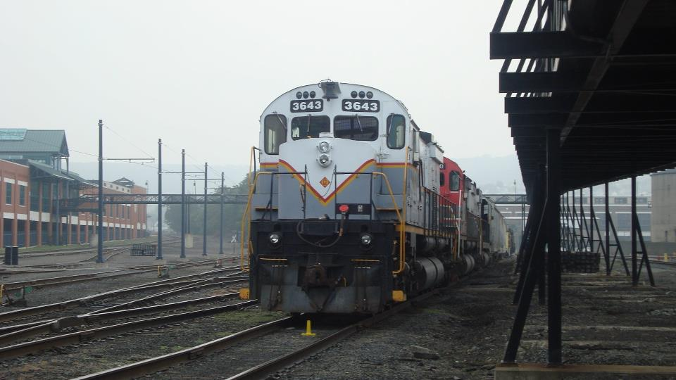 ALCO M636